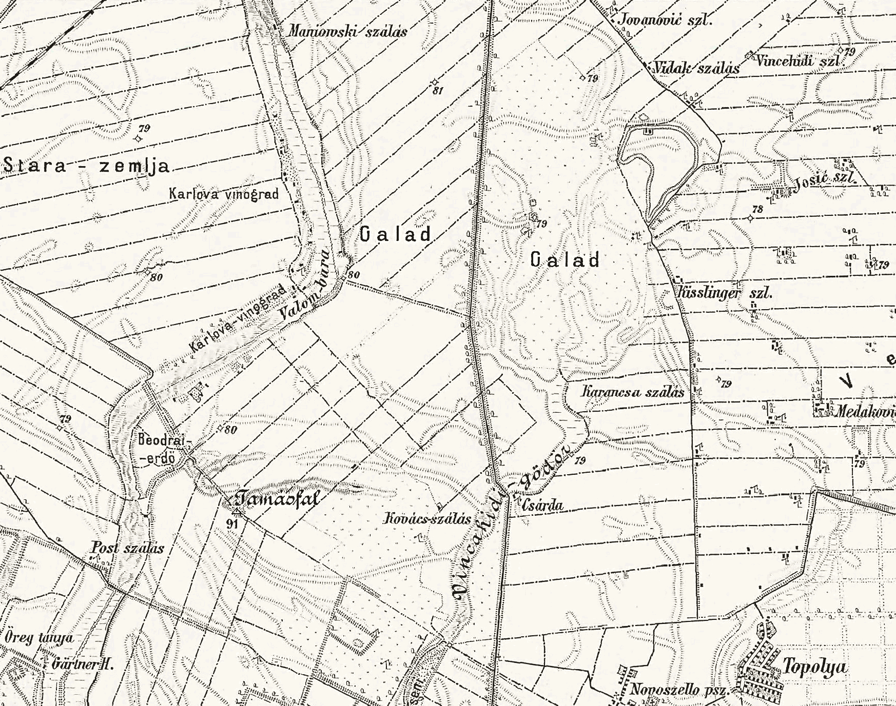 Earthen fortification "Galad Grad" in Vojvodina's Banat region on a map from cc. 1880